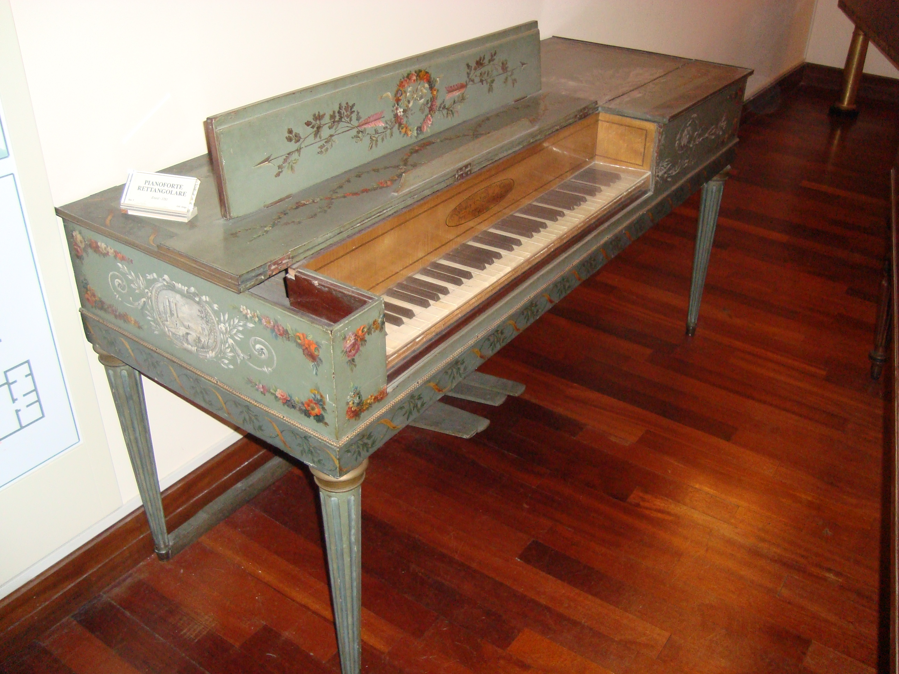 Rectangular piano-forte manufactured by Sébastien Érard in 1781, Museo Nazionale degli Strumenti Musicali di Roma